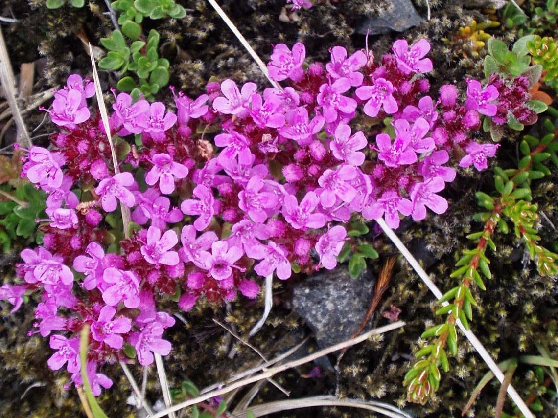 Thymus_praecox (de: Langhaariger_Thymian) nearby Seyðisfjörður in Iceland